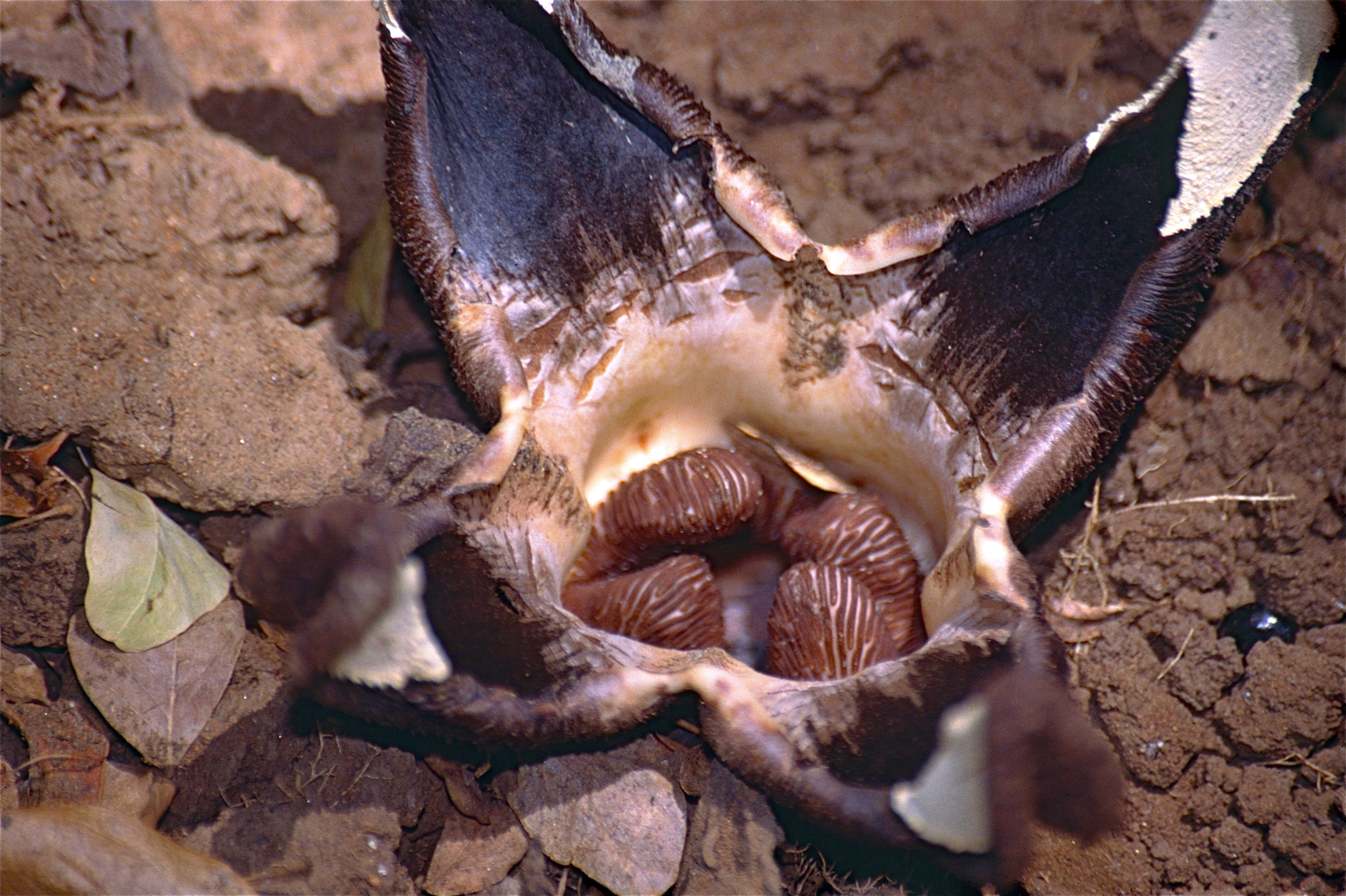 Réserve de Berenty, Amboasary Sud, MADAGASCAR Scanned Slide from 1998